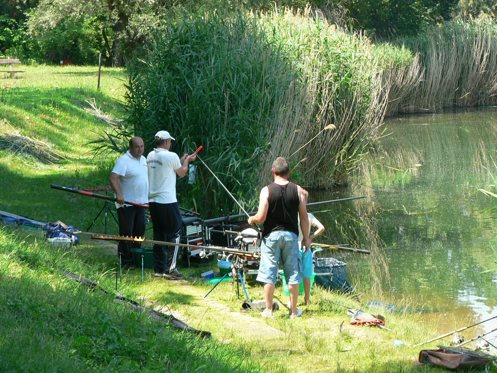 Megyei horgászverseny a Slötyinél